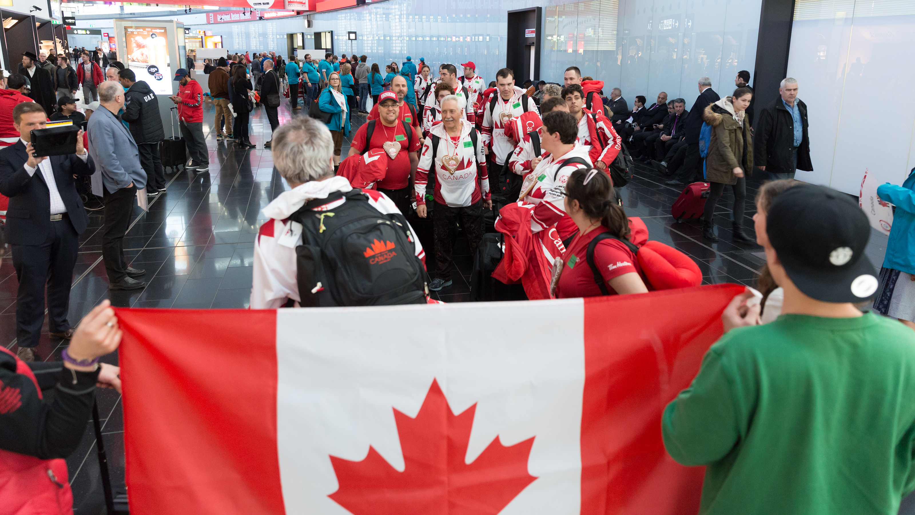 Arrival and greeting of the delegation from Canada for the 2017 Special Olympics World Winter Games at Vienna International Airport.